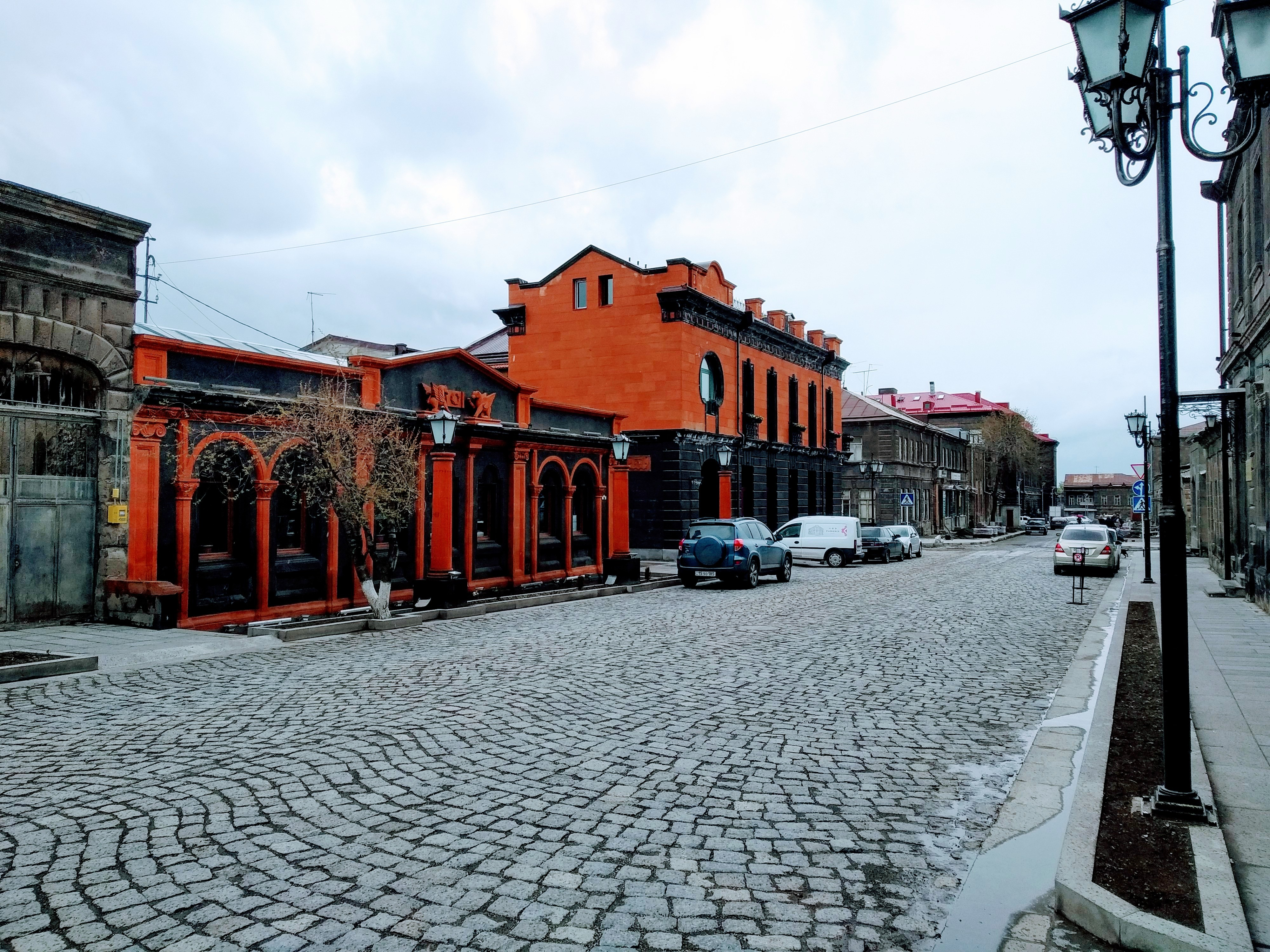 Poloz Mukuch Beerhouse, Gyumri. 1/4.909